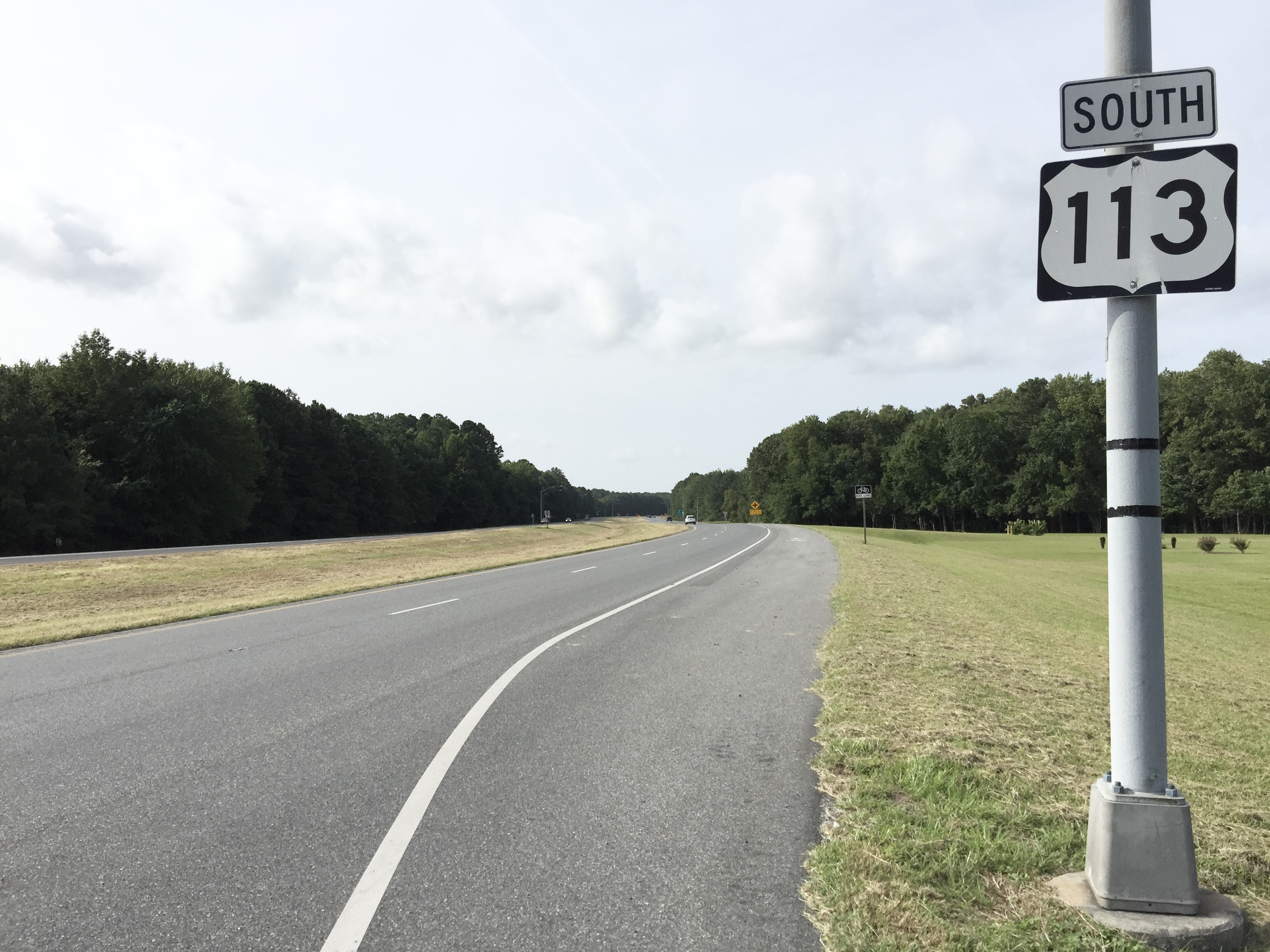 View south along U.S. Route 113 (Worcester Highway) at Maryland State Route 756 (Old Snow Hill Road) just northeast of Pocomoke City in Worcester County, Maryland